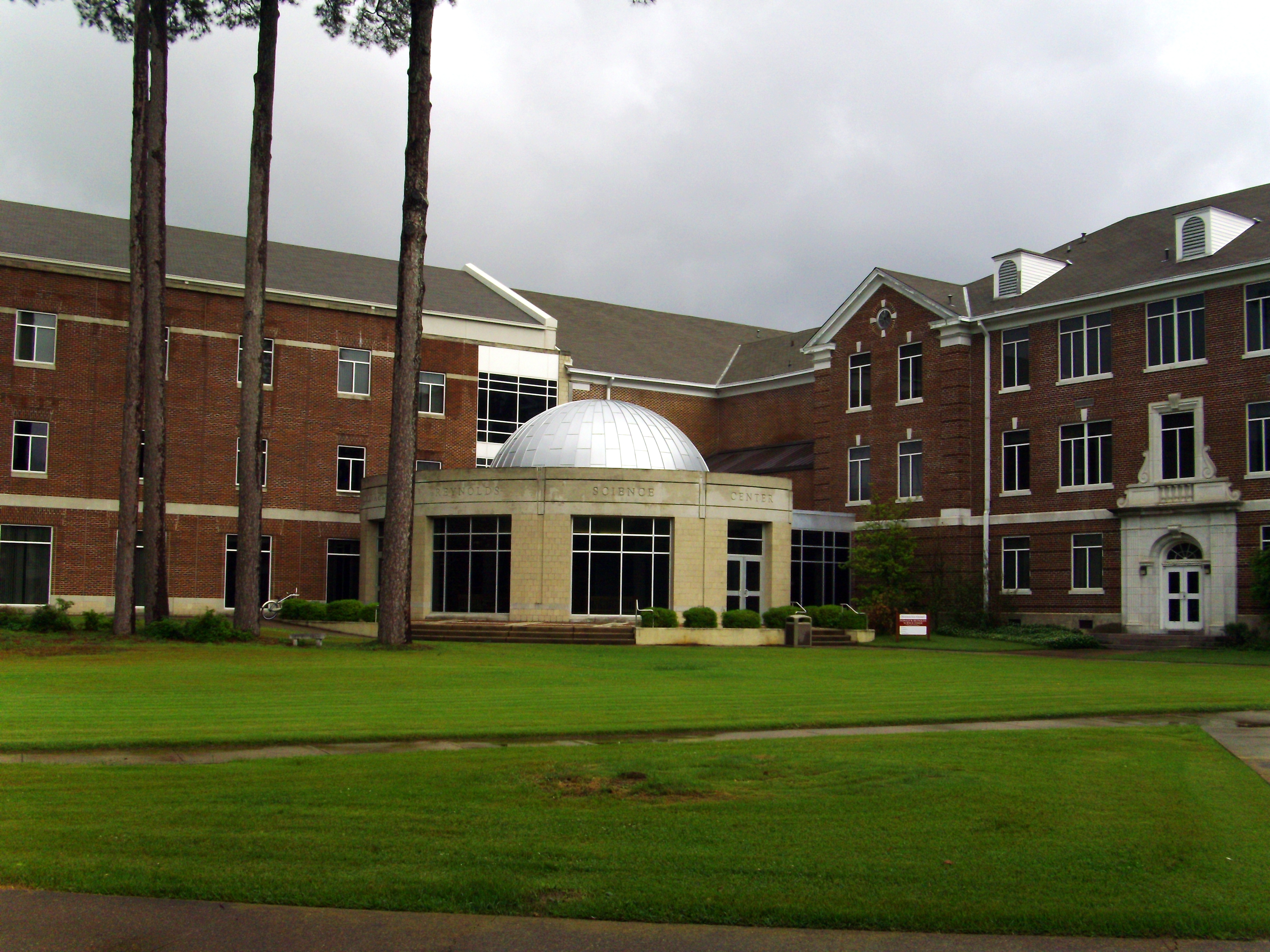 Campus of Henderson State University in Arkadelphia, AR